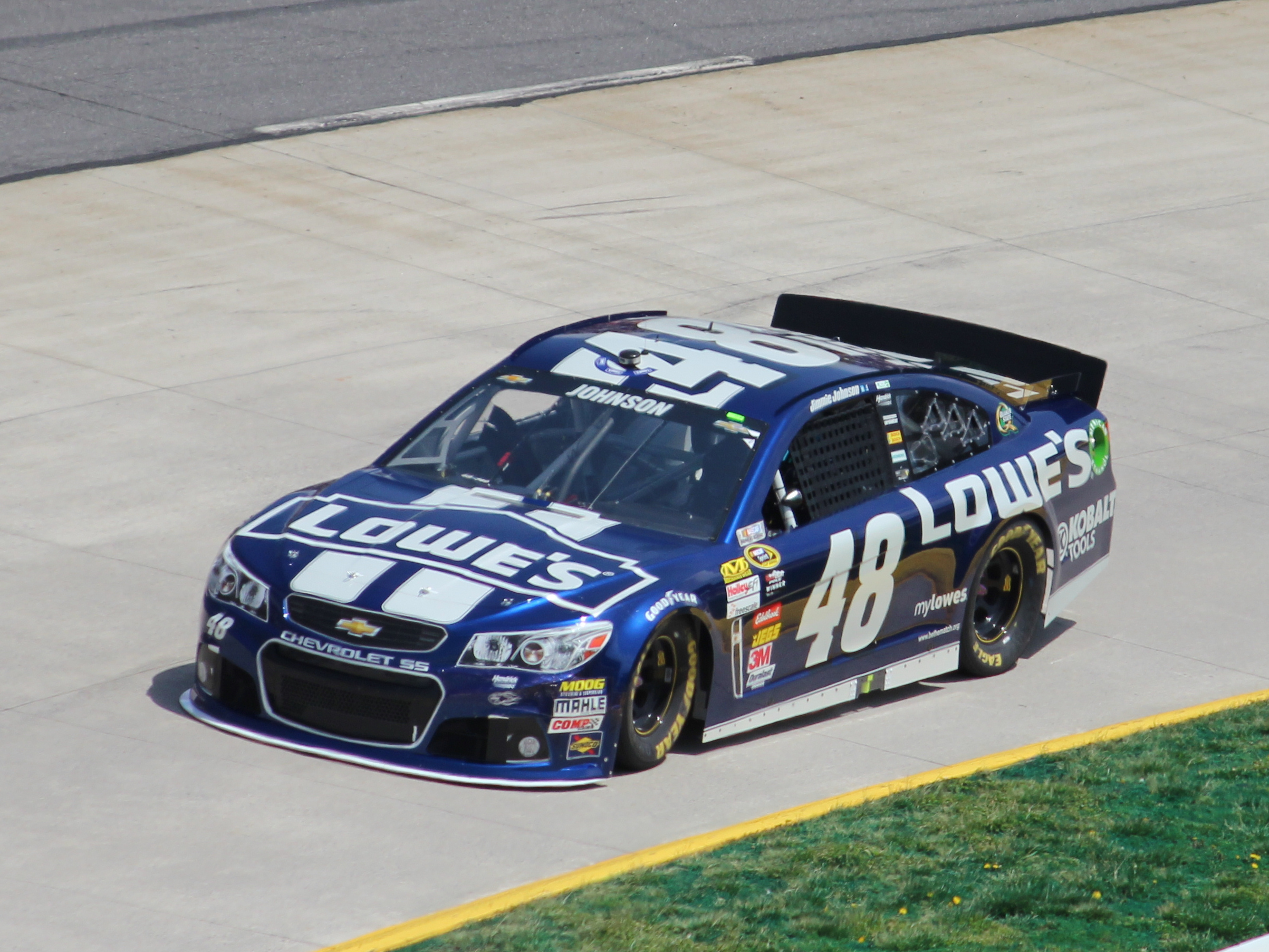 Jimmie Johnson during the 2013 STP Gas Booster 500 at Martinsville Speedway. (April 7, 2013)